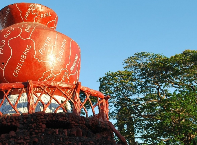 The word Calamba derived from "kalan" which means clay pot and "banga" which means water pot.